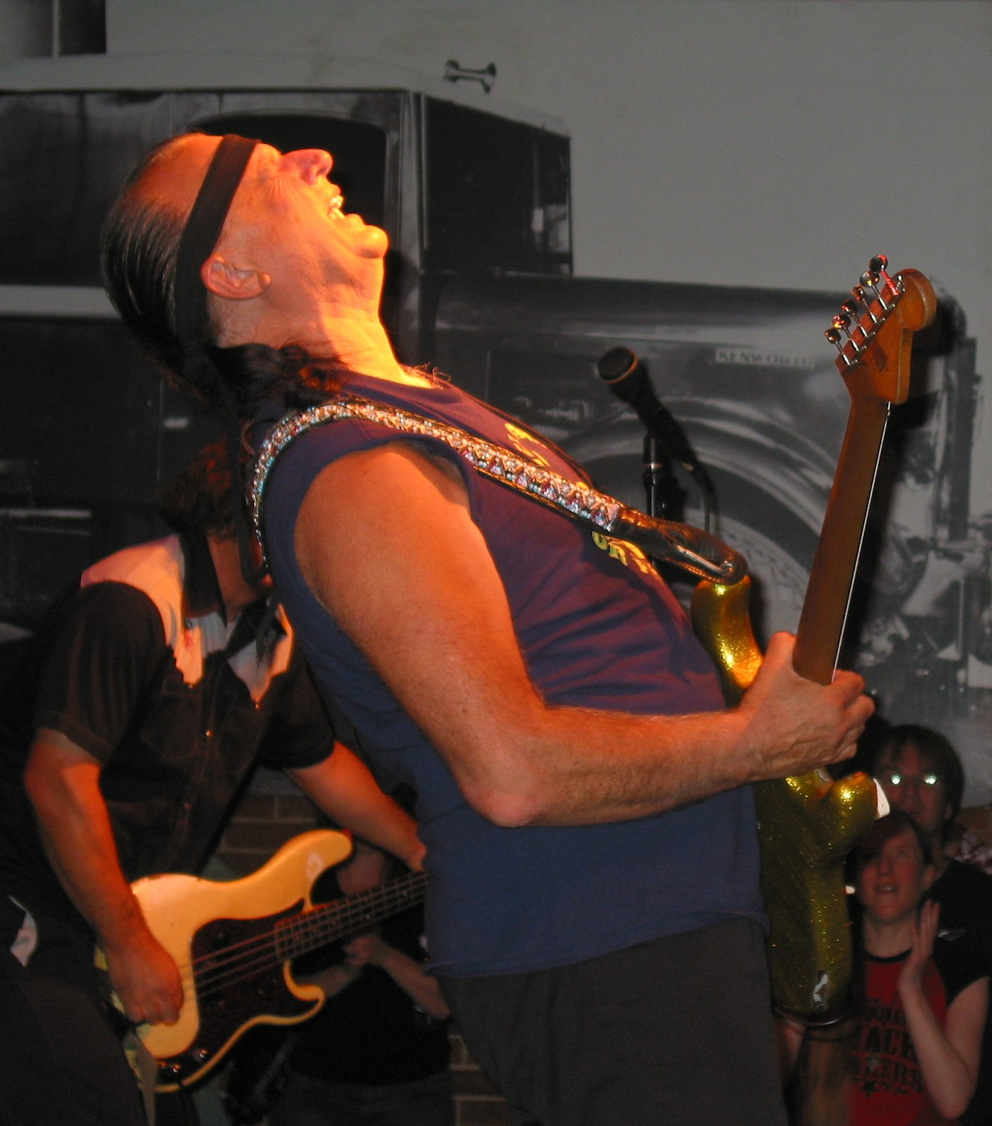 Dick Dale @ The Tractor Tavern 9-11-2006